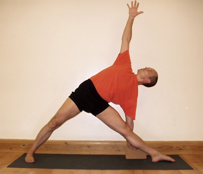 A student of Iyengar Yoga performing Uttitha Trikonasana, triangle pose, which is one of the basic standing poses.